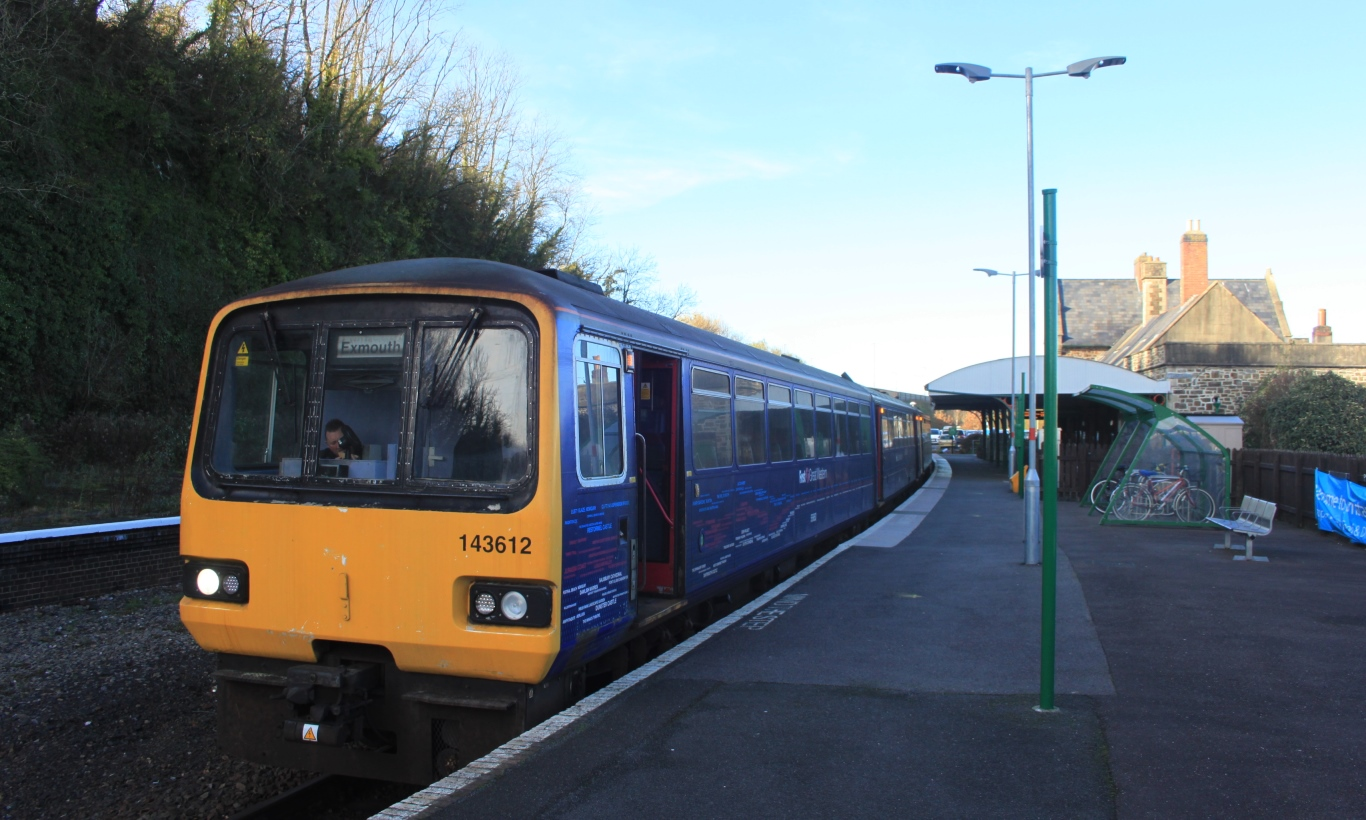 A pair of Great Western Railway 'Pacer' units (143612 and 143621) prepare to leave Barnstaple with a service to Exmouth on the opposite side of Devon.